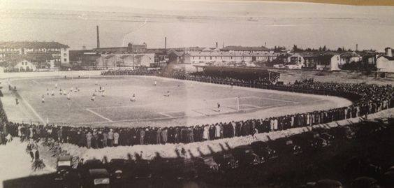 Stadio via Pisacane, now Stadio Giovanni Mari, in Legnano, Italy, late 1930s